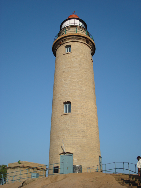 Lighthouse Mamallapuram